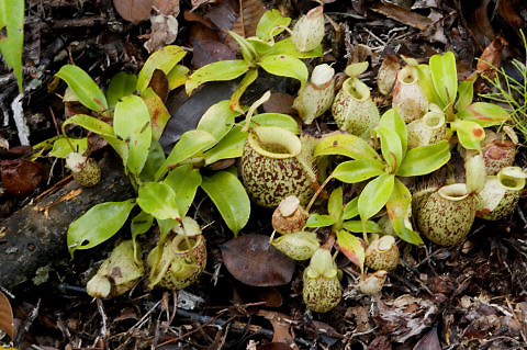 Nepenthes × hookeriana